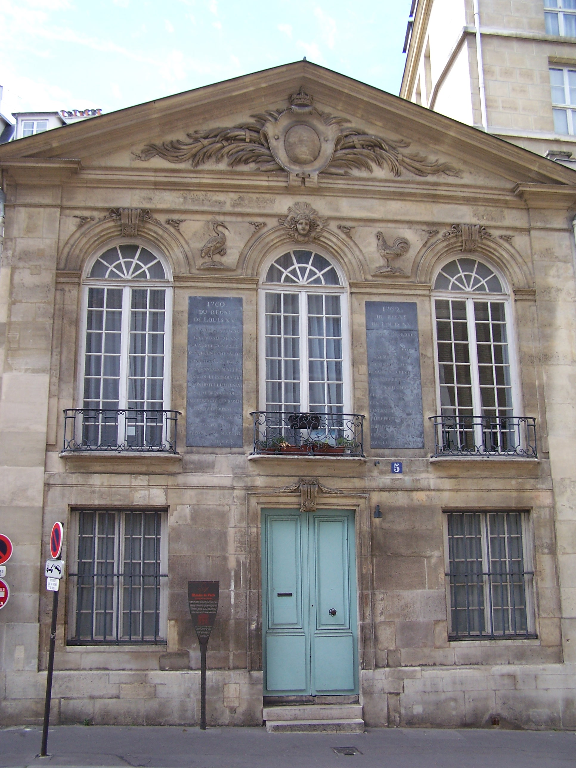 View of the pavillion at 5, rue Geoffroy-Saint-Hilaire in Paris, registered at the Monuments historiques since 1925